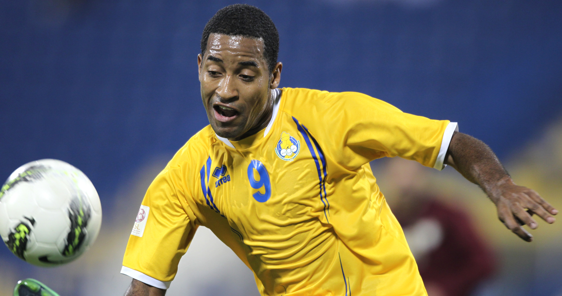 Al Gharafa's Brazilian professional Edmilson runs with the ball during a Qatar Stars League match.